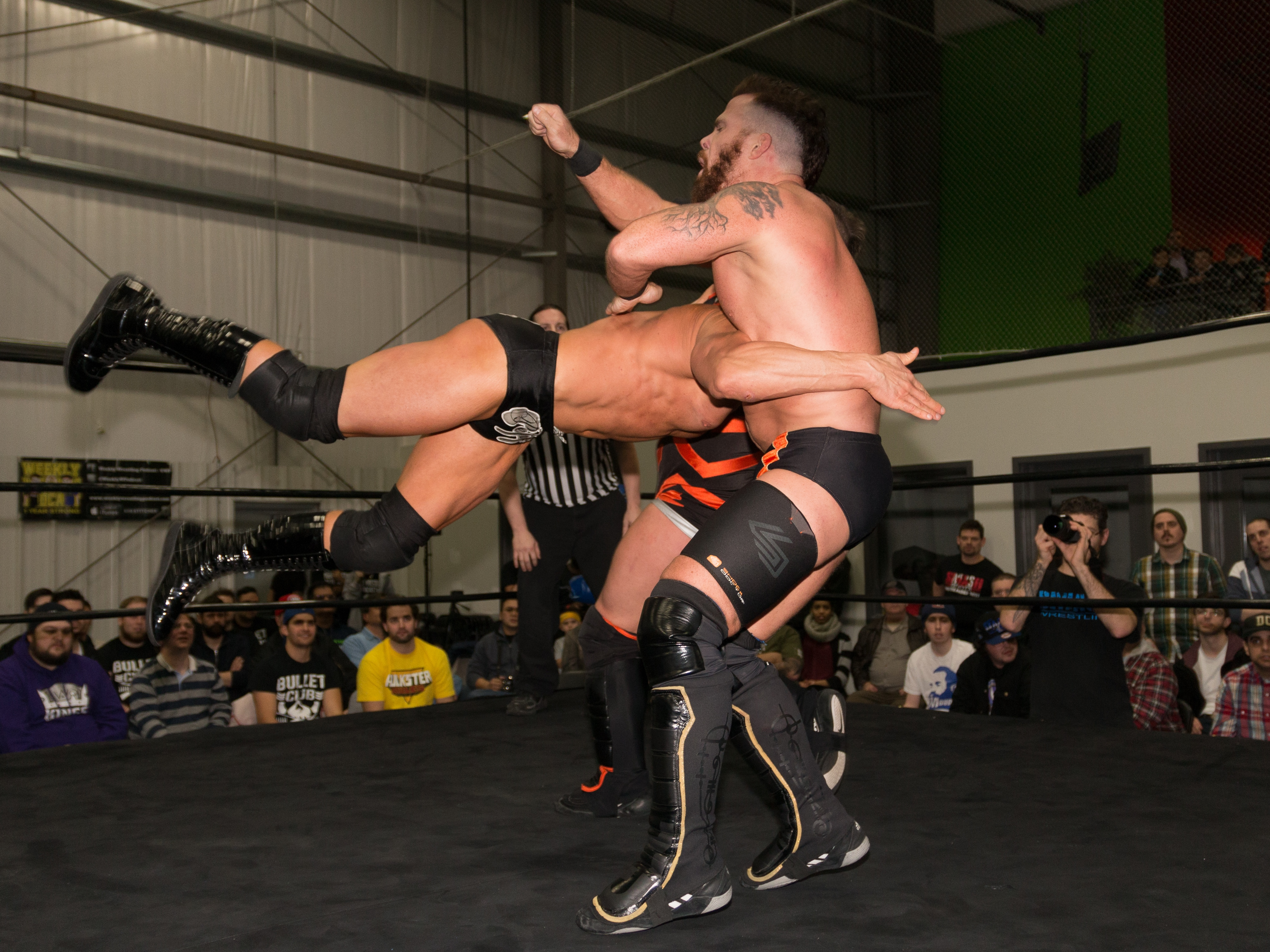 Pepper Parks (left) hitting Tyson Dux (standing, in black trunks) and Scotty O'Shea (in black & orange singlet) at Smash Wrestling's "The Usual Suspects" show at the Canlan Sportsplex in Mississauga, ON